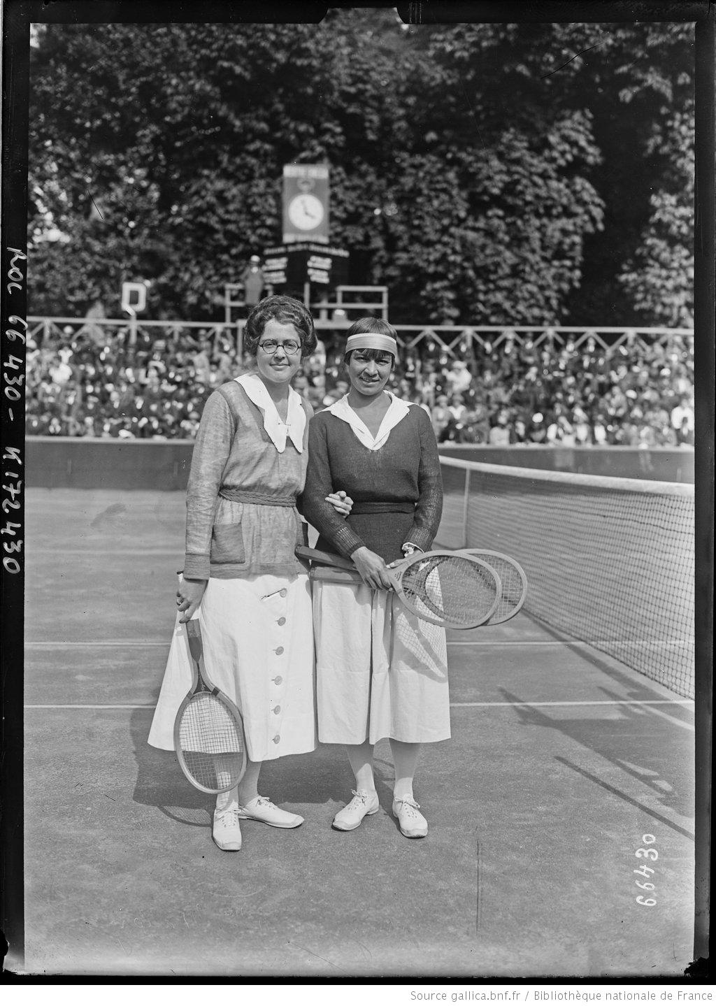 American tennis players Edith Sigourney (l.) and Molla Mallory. Picture was taken at the 1921 World Hard Court Championships at Paris.